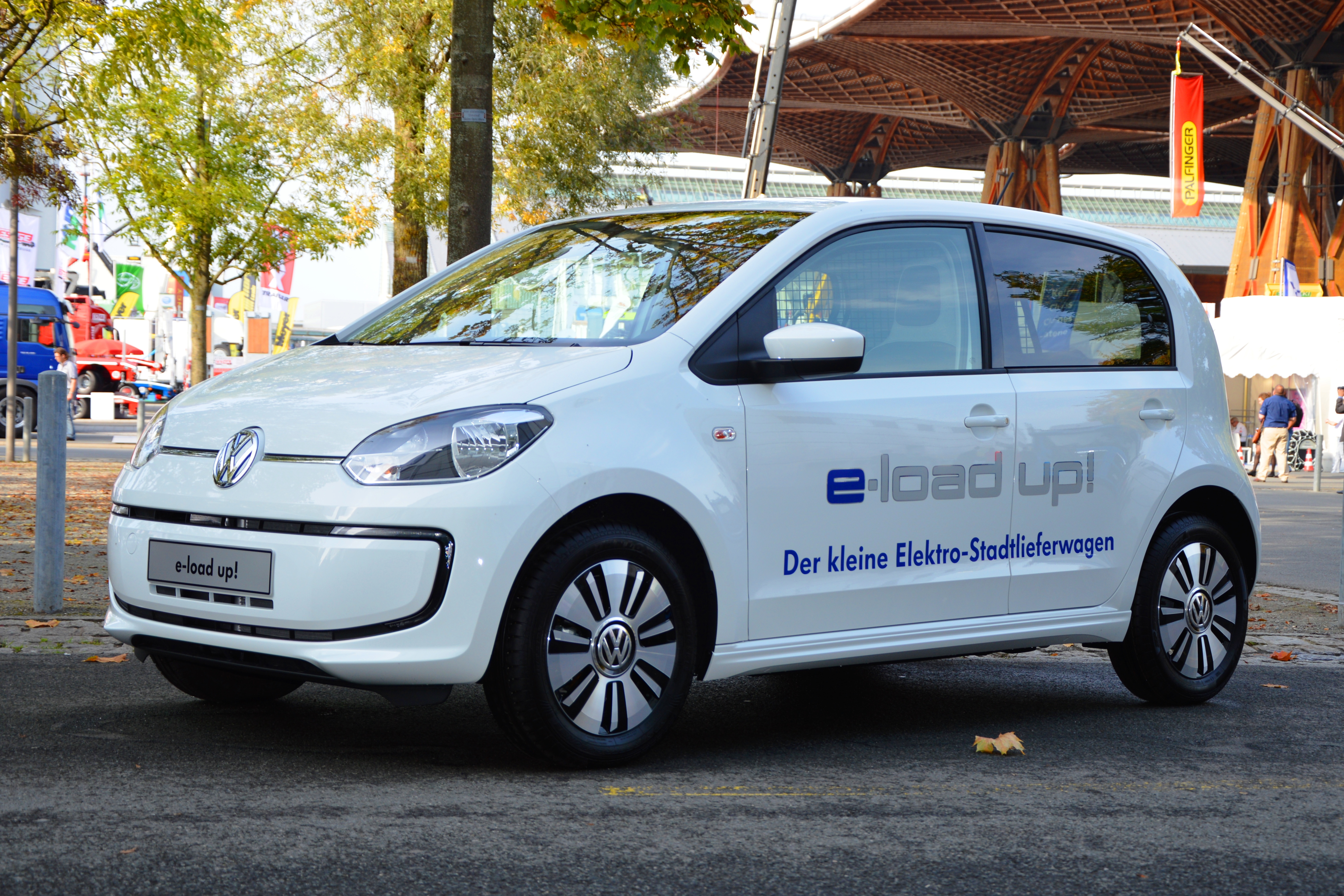 Volkswagen e-load up! Photo taken at exhibition IAA 2014 in Hanover, Germany.